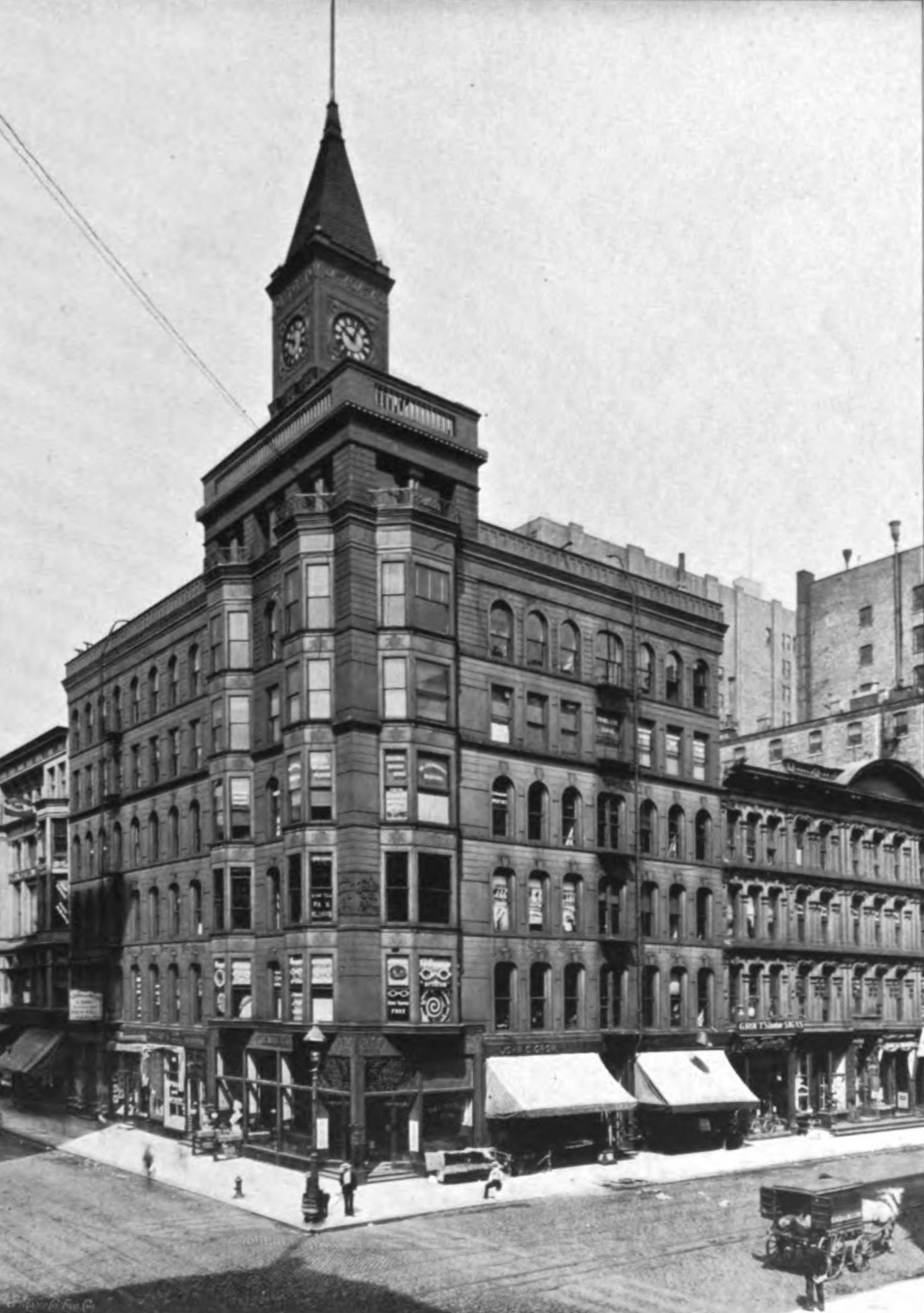 Picture of the Chicago Inter Ocean building at the corner of Madison and Dearborn streets in downtown Chicago, from the 1900 A History of the City of Chicago. This was the third and last location occupied by the Inter-Ocean; the paper was printed there starting in 1890.